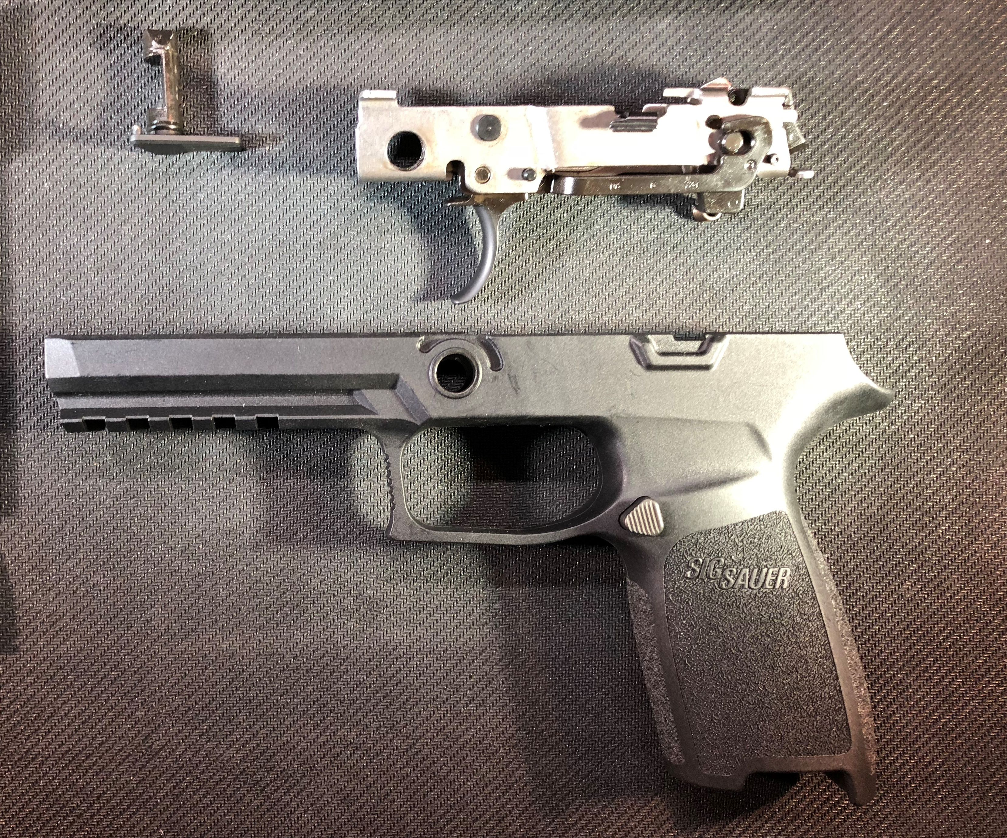 A Sig Sauer P320 Fire Control Unit with take down lever and grip module